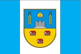 Flag of Bilopolskij district (Ukraine)